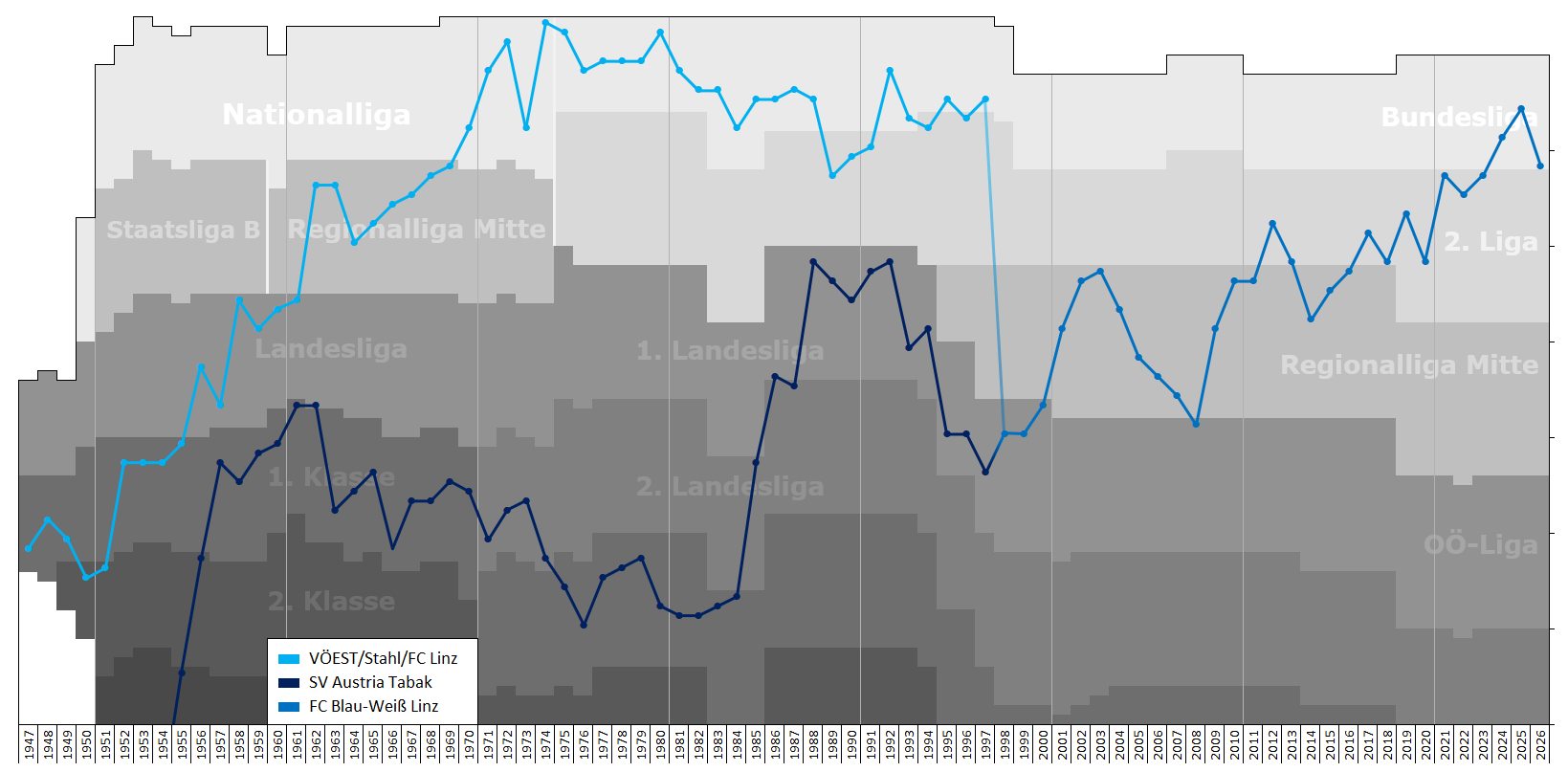 Chart of end-season table positions of Blau-Weiß Linz and its predecessors in the Austrian football league system. Data source: RSSSF, , regiowiki.at, ofv.at, wikipedia